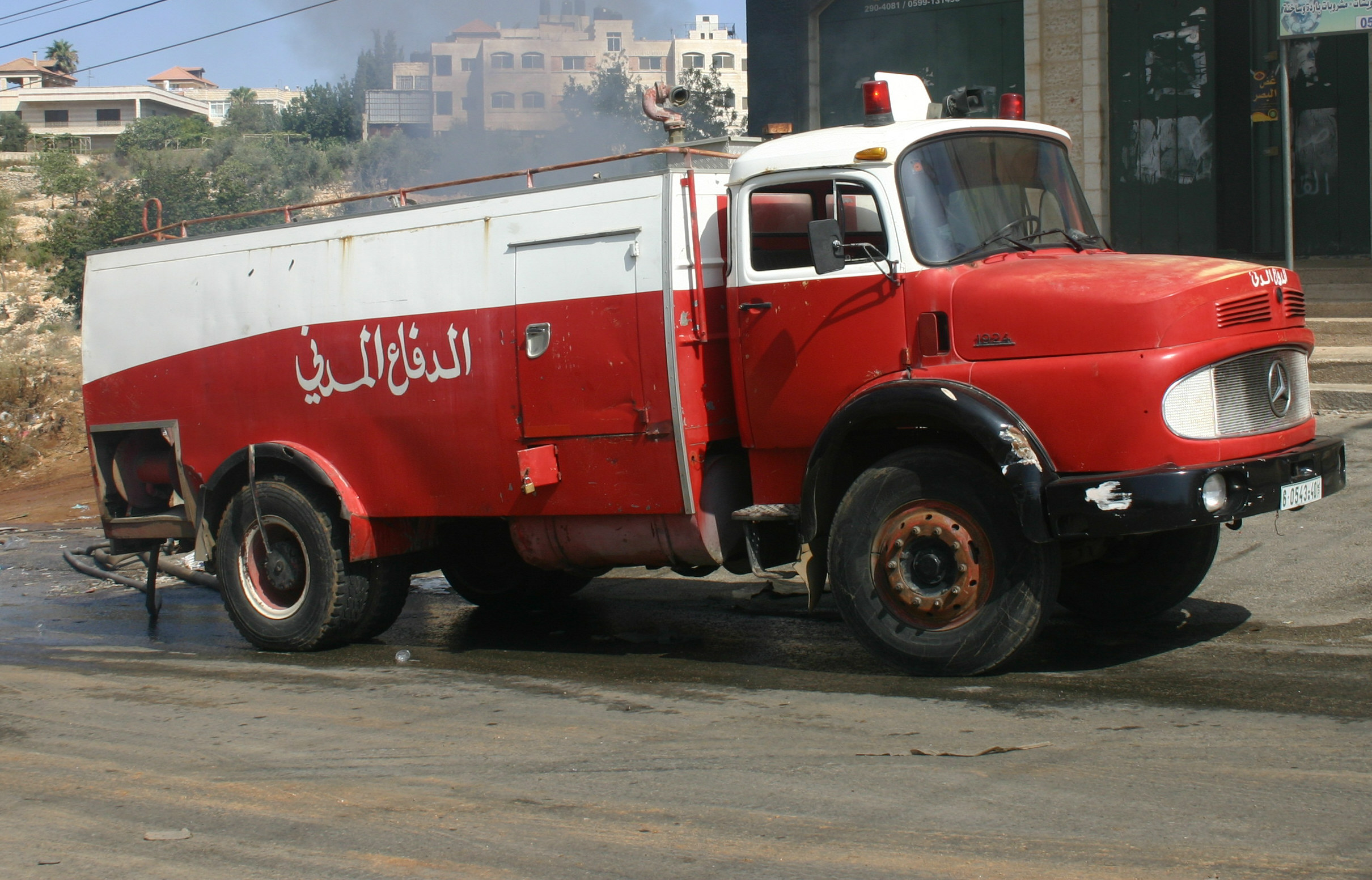 Fire angeine of Beitunia